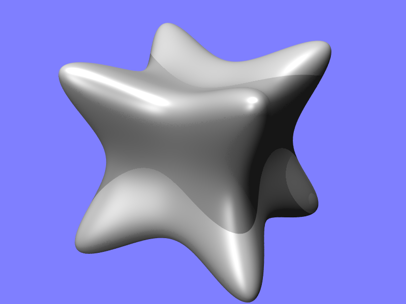 Goursat's Surface has the equation x^4 + y^4 +z^4 + a*(x^2 + y^2 + z^2)^2 + b*(x^2 + y^2 + z^2) +c In this case a=-0.27, b= -0.5, c=-1